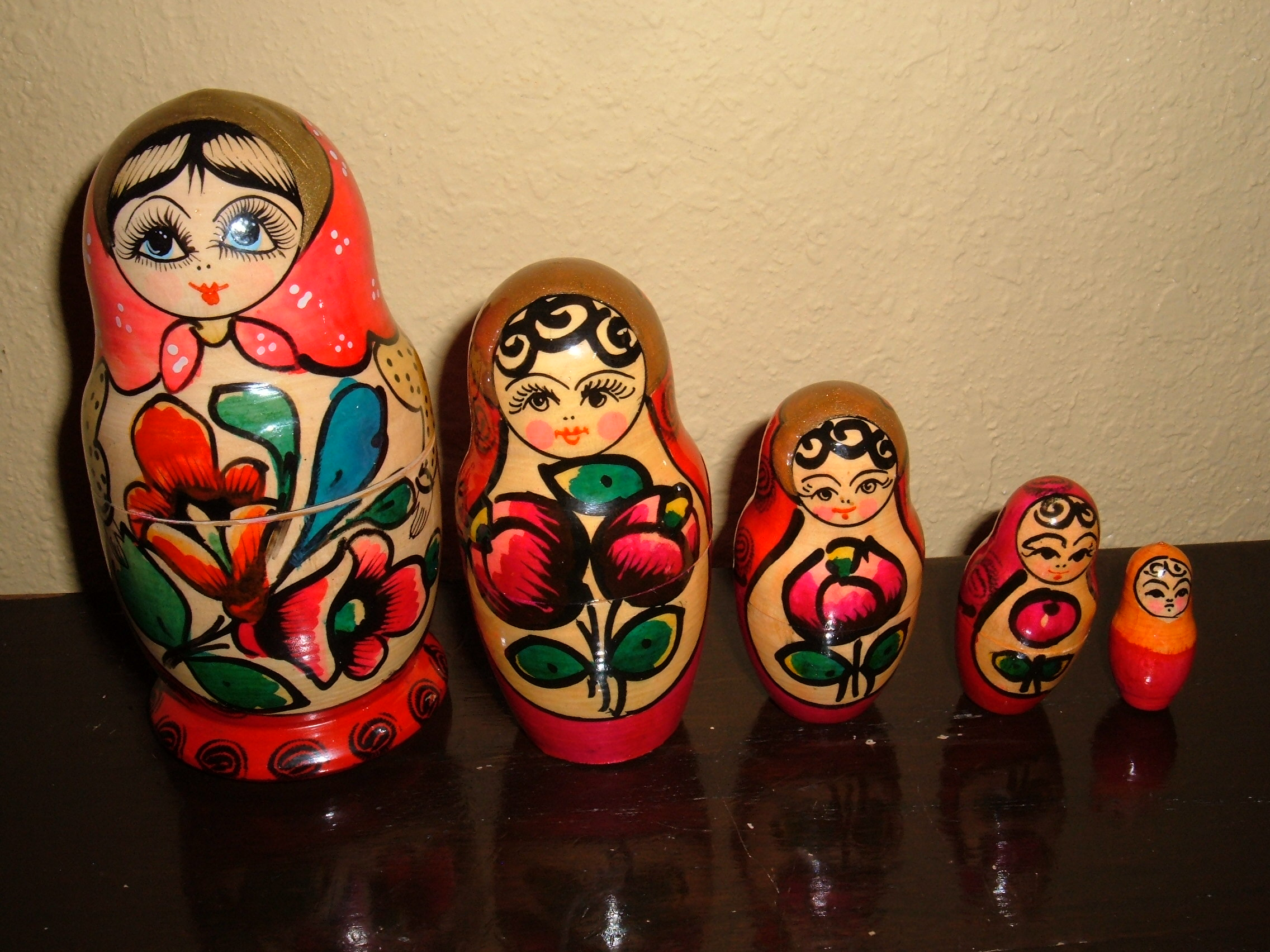 A set of floral-themed matryoshkas.